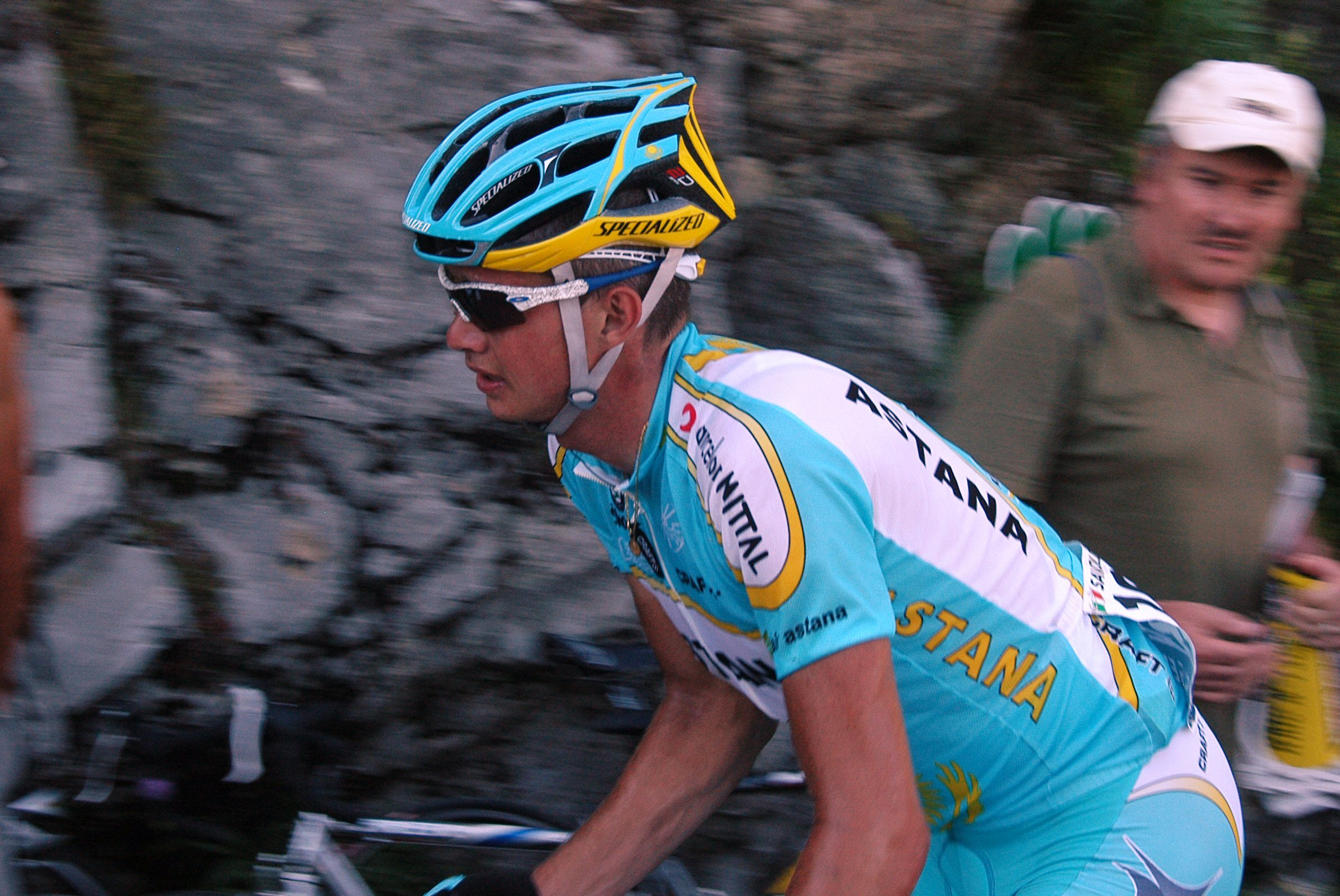 Paolo Savoldelli at stage 7 of the Tour de France 2007 on the Col de la Colombière.